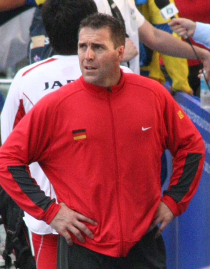 World Athletics Championships 2007 in Osaka - German Javelin thrower Peter Esenwein at the interview stand after an unsuccessful qualification round